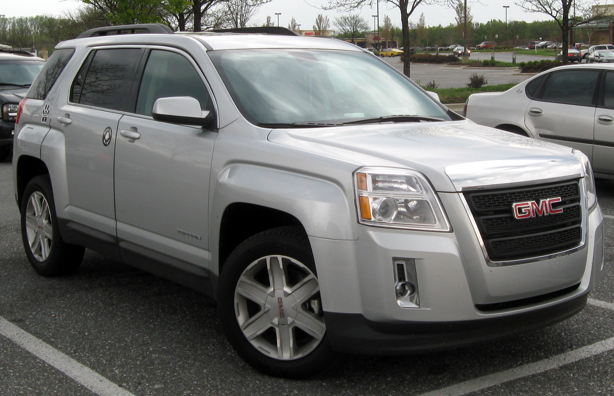 2010-2012 GMC Terrain photographed in Clinton, Maryland, USA.